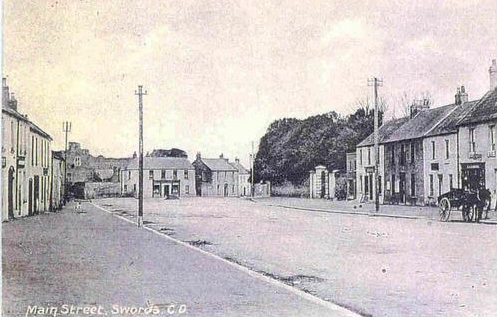 Swords Main st. c. 1940